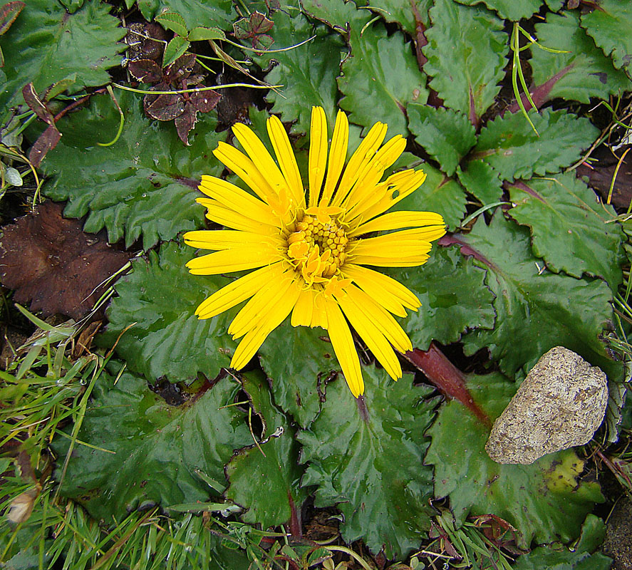 From an alpine marsh high in the Cordillera Occidental of Peru.